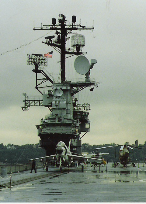 Photo of the island of the carrier USS Intrepid (CVS-11) at New York City (USA). Visilbe radars are (from the top): SPS-10, two WLR-1 ECM, IFF (left); SPN-6 (right), SPS-37 (left), SPS-30 (right), ULQ-6 ECM, director Mk 37 with Mk 25. On the catapult sits a McDonnell F3H Demon fighter.